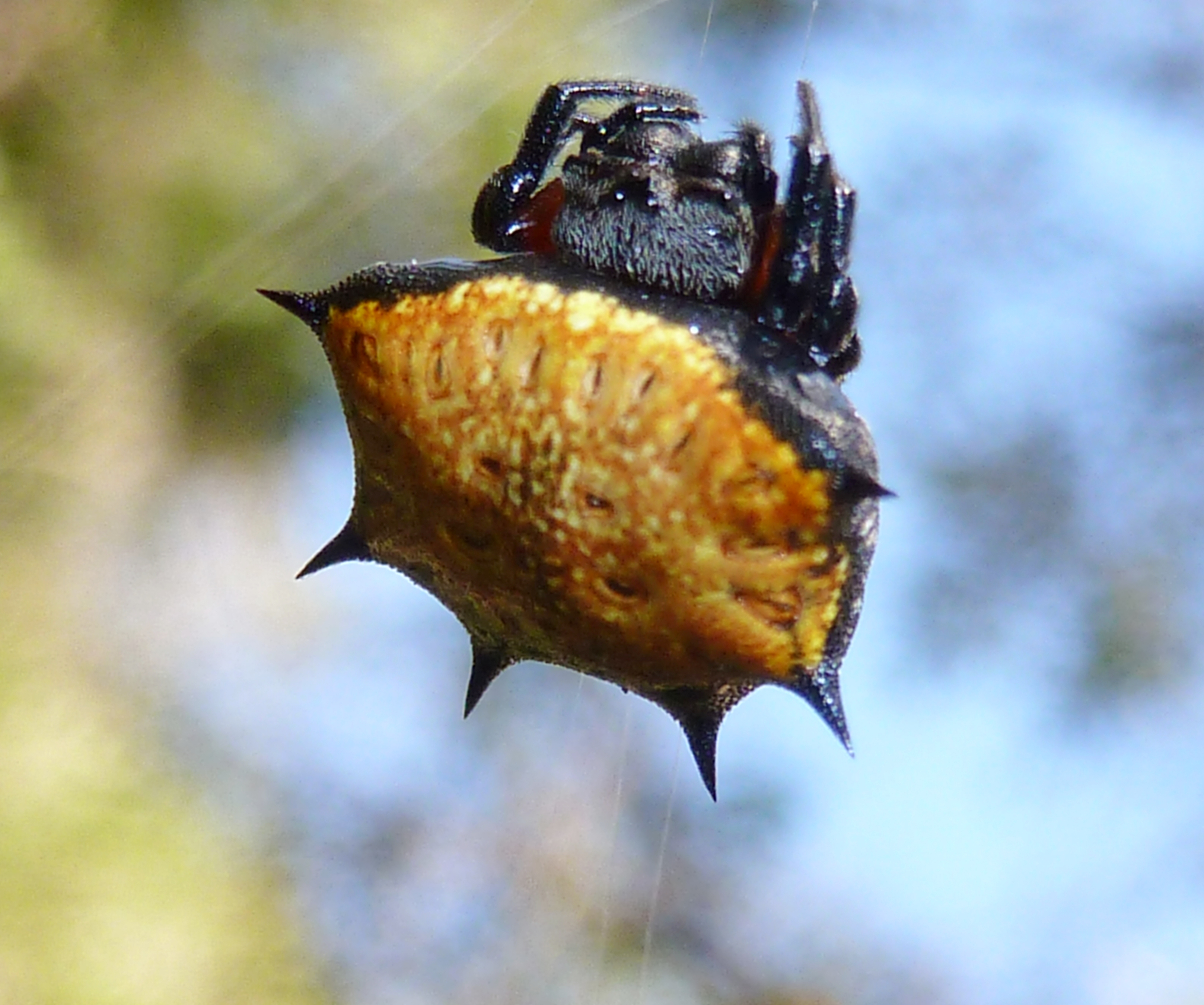 Biscuit kite spider in Krantzkloof Nature Reserve in Kloof, KwaZulu-Natal